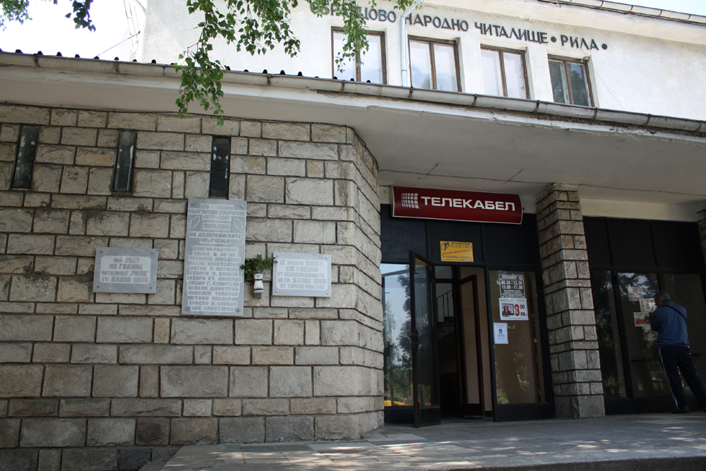 Culture club (chitalishte) Rila of Dolna Banya